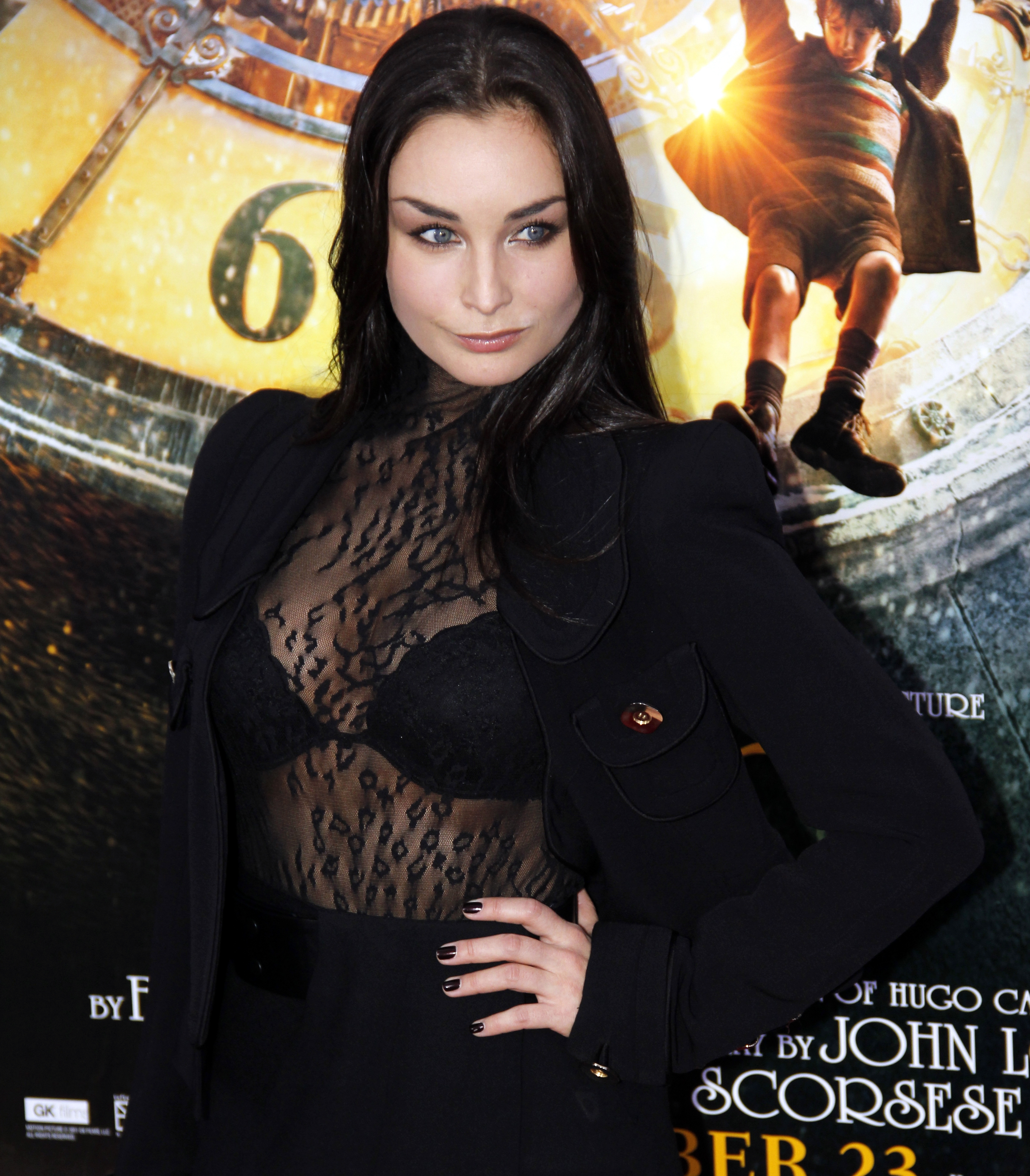 Ewa Da Cruz at the Hugo Premiere, New York City 2011.